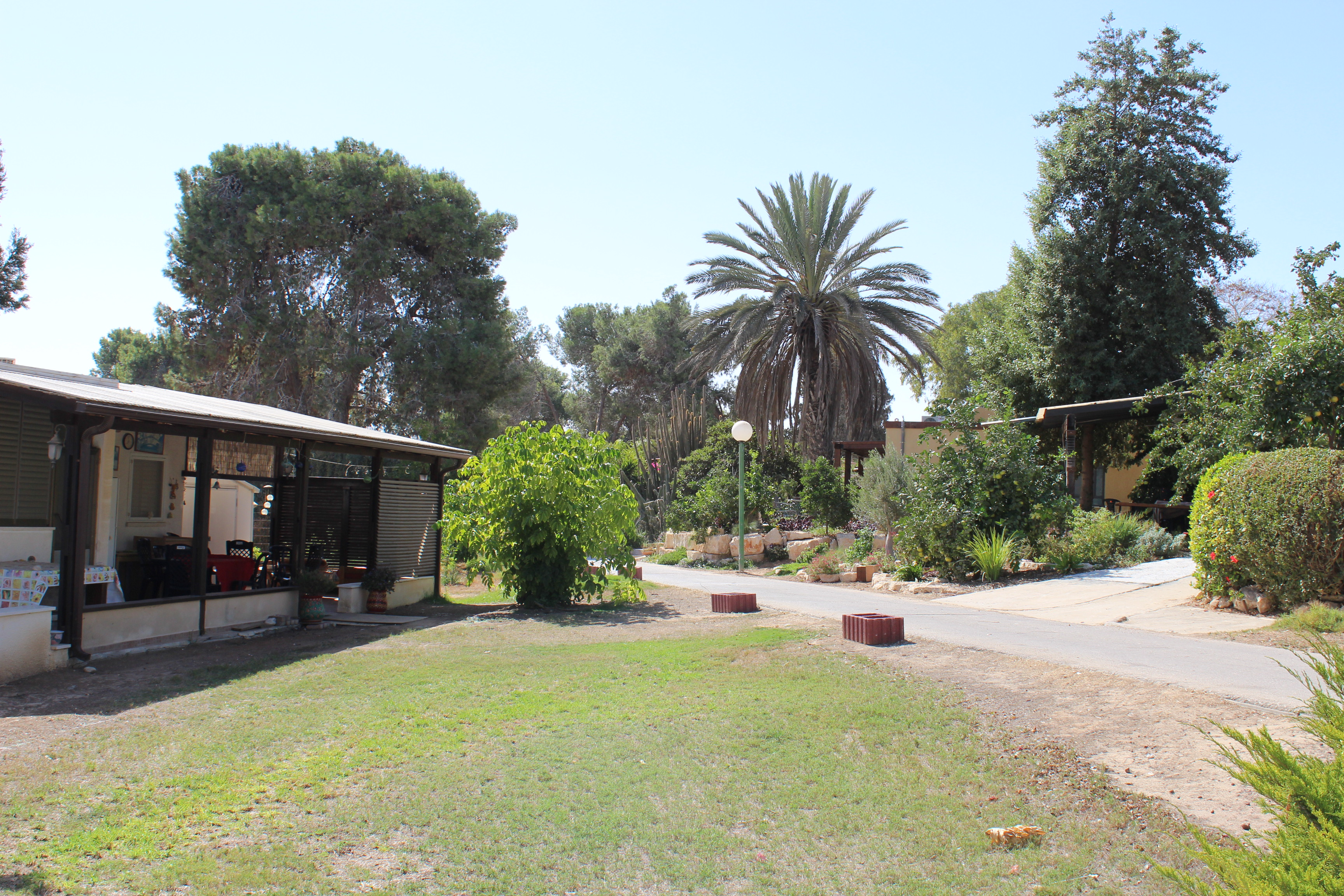 Kefar Aza Kibutz, Israel